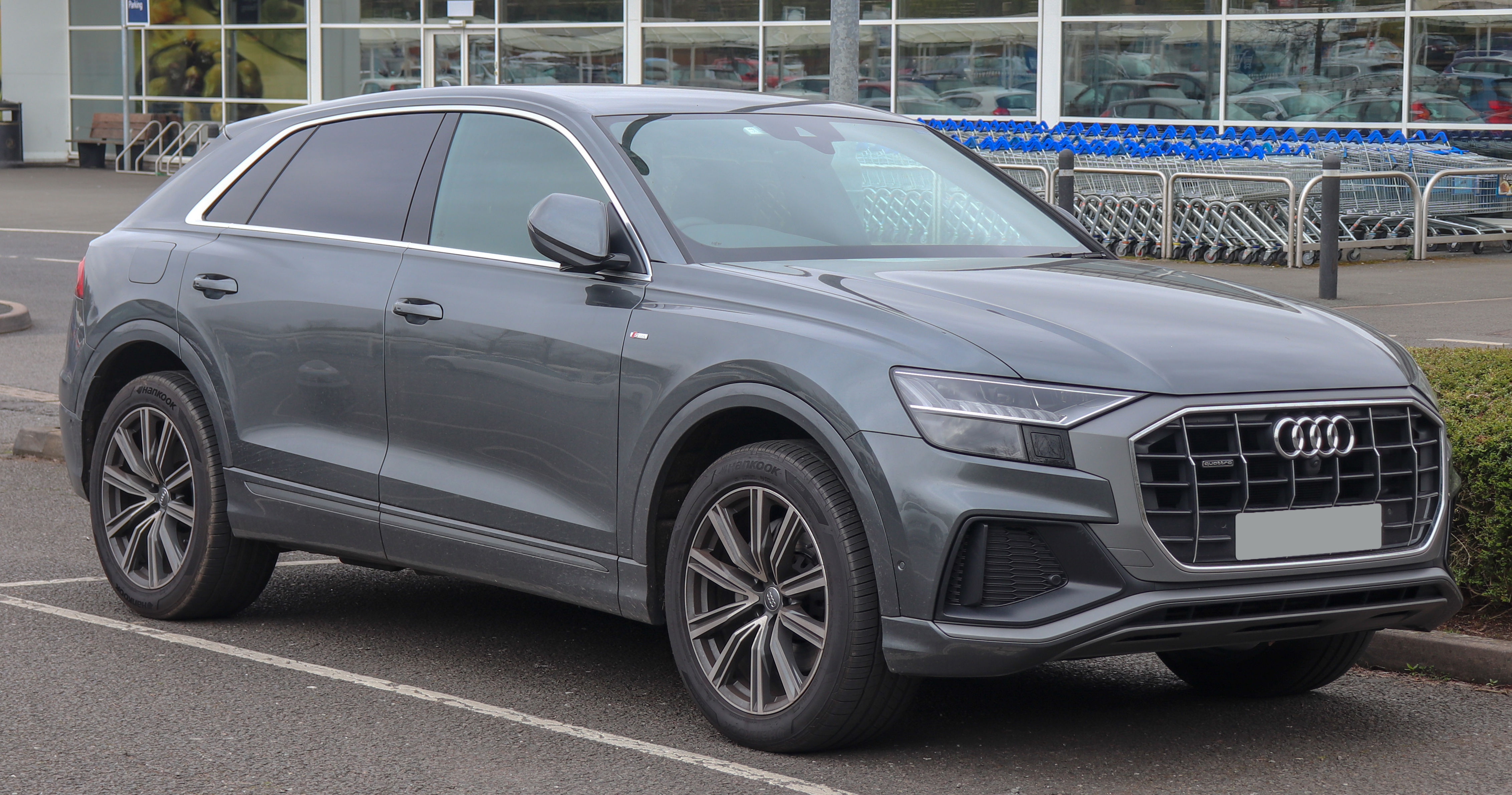 2018 Audi Q8 S Line 50 TDi Quattro 3.0 Front Taken in Warwick